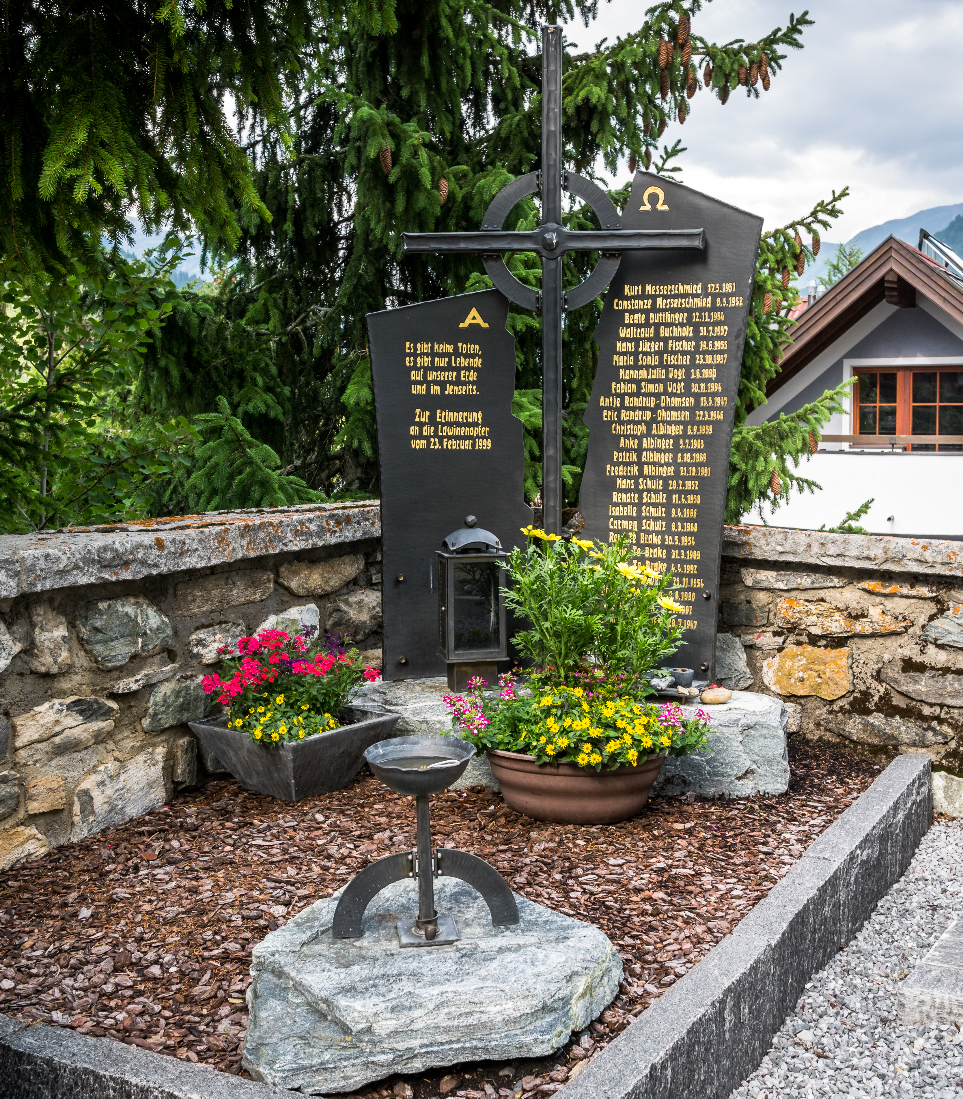 Memorial of the avalanche disaster in 1999 on the cemetery in Galtür. Paznaun, Tyrol, Austria